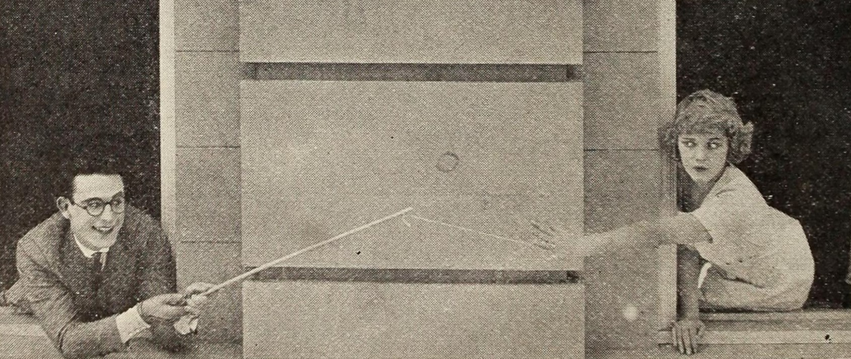 Harold Lloyd and Mildred Davis in Never Weaken, Exhibitor's Trade Review, October 8, 1921.